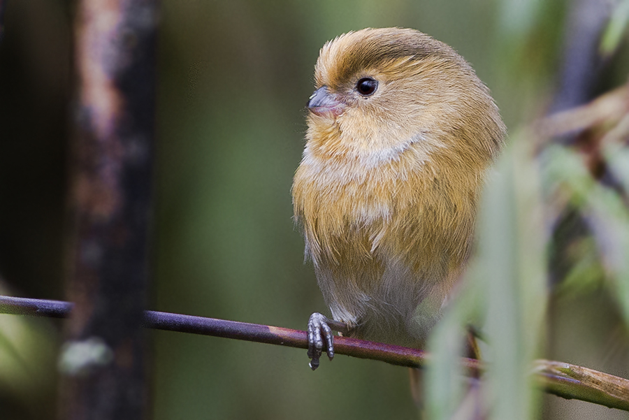 The species Fulvous Parrotbill Suthora fulvifrons had been photographed from Zuluk, East Sikkim, Sikkim, India during the GoingWild birding tour on 31.05.2015.